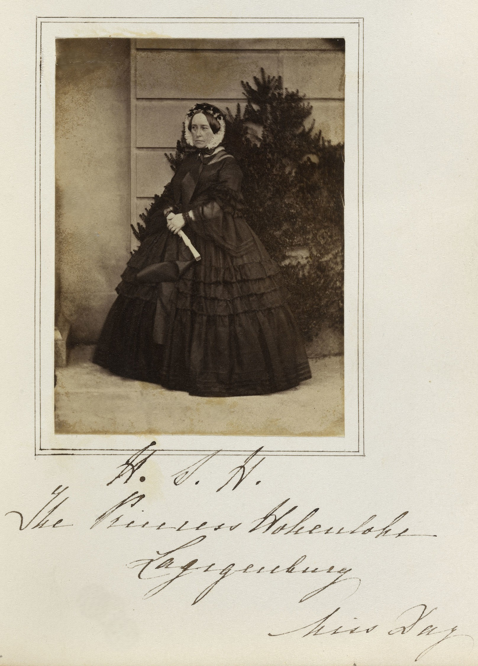 Full-length portrait of Feodore, Princess Hohenlohe-Langenburg, photographed outside at Osborne House. She was the half-sister of Queen Victoria.